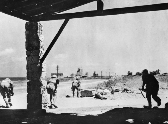 Australian troops from the 2/5th Infantry Battalion, 2nd AIF, in action around Khalde, Lebanon, in July 1941